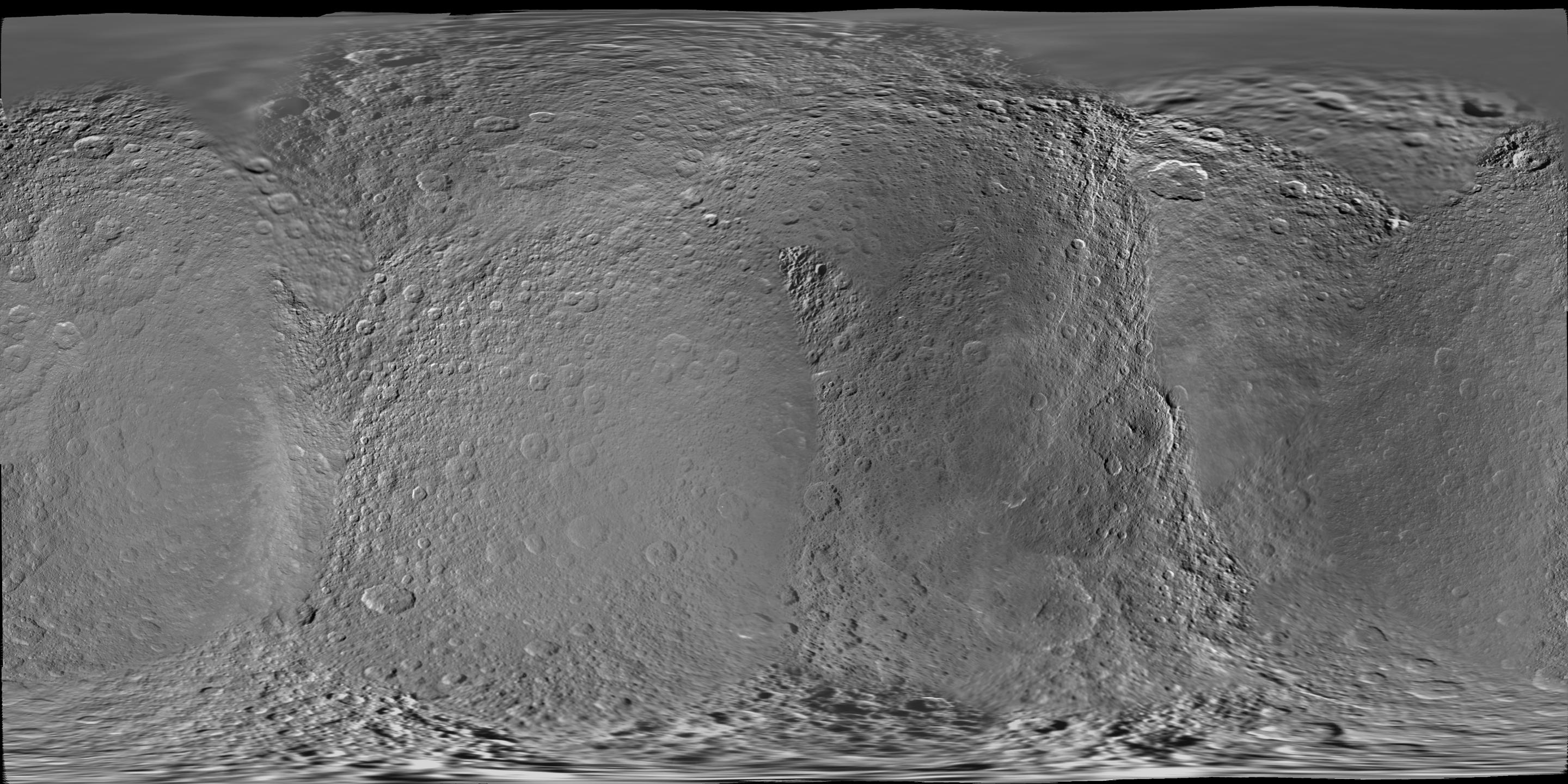 This global digital map of Rhea was created using data taken during Cassini and Voyager spacecraft flybys. The map is an equidistant projection and has a scale of 417 meters (1,400 feet) per pixel in the full size version. The mean radius of Rhea used for projection of this map is 764.1 kilometers (474.8 miles). This map is an update to the version released in December 2006. See PIA08343. This map is the first of Rhea to be created using mostly only Cassini images. Six Voyager images fill gaps in Cassini's coverage of the north pole. The Cassini-Huygens mission is a cooperative project of NASA, the European Space Agency and the Italian Space Agency. The Jet Propulsion Laboratory, a division of the California Institute of Technology in Pasadena, manages the mission for NASA's Science Mission Directorate, Washington, D.C. The Cassini orbiter and its two onboard cameras were designed, developed and assembled at JPL. The imaging operations center is based at the Space Science Institute in Boulder, Colo. For more information about the Cassini-Huygens mission visit and The Cassini imaging team homepage is at .